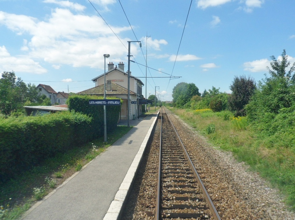 Sight of the Abrets-Fitilieu railway station, between Lyon and Chambéry in Isère, France.